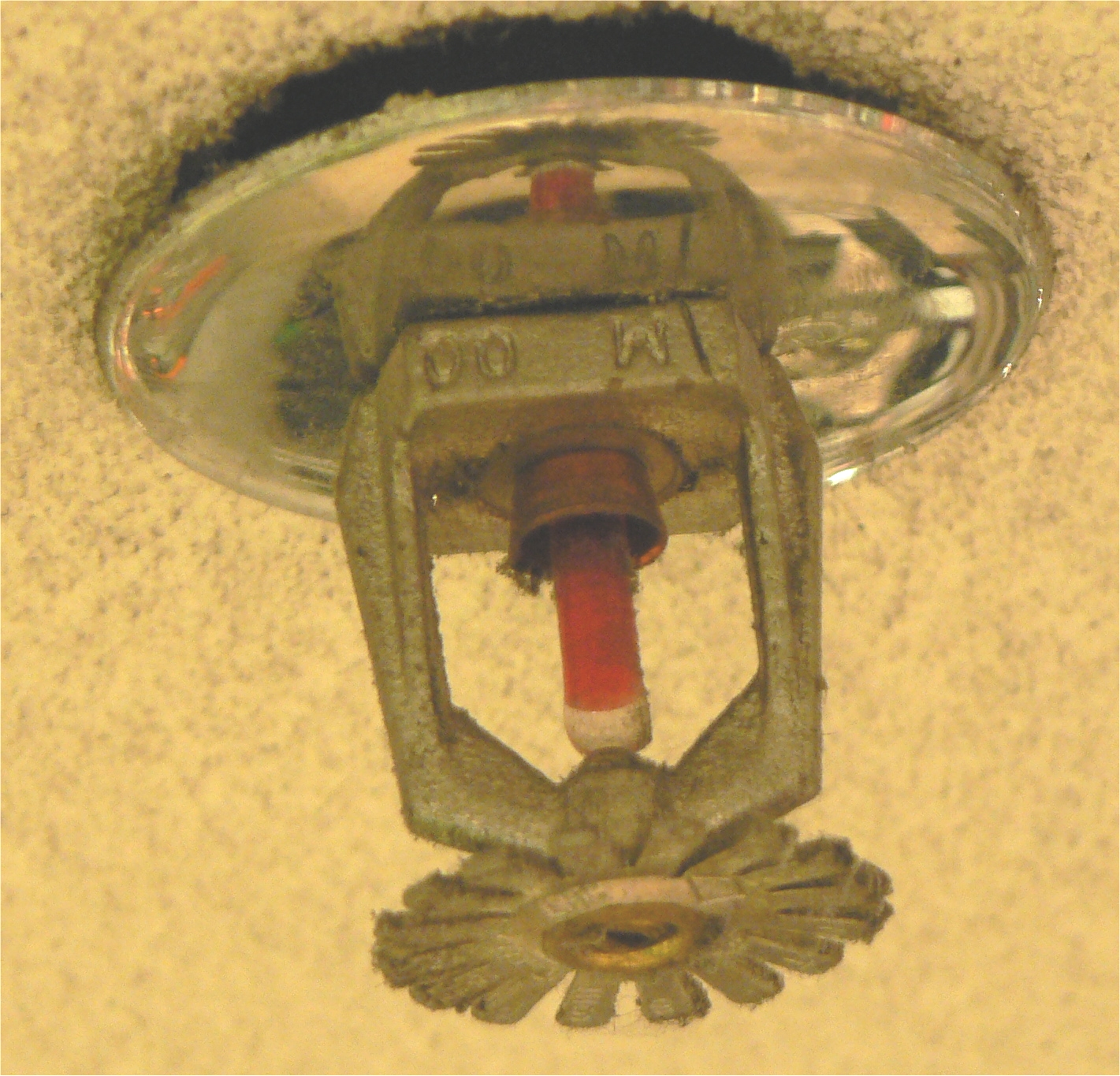 fire sprinkler